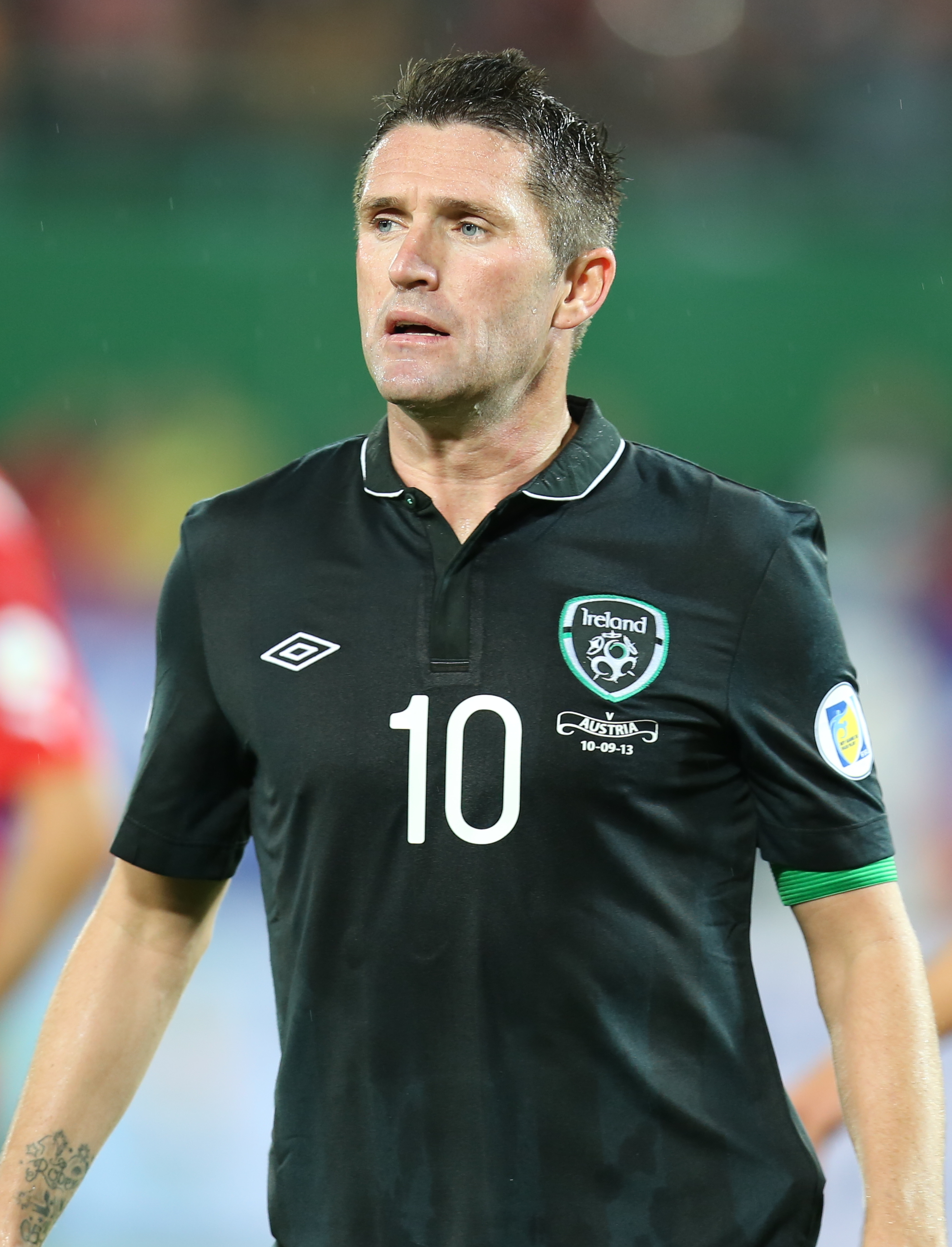 2014 FIFA World Cup qualification (UEFA), Group C: Republic of Ireland national football team at 10. September 2013 before the match against the Austria national football team (0:1) in the Ernst-Happel-Stadion in Vienna. Here:Robbie Keane, irish striker The making of this work was supported by Wikimedia Austria. For other files made with the support of Wikimedia Austria, please see the category Supported by Wikimedia Österreich.